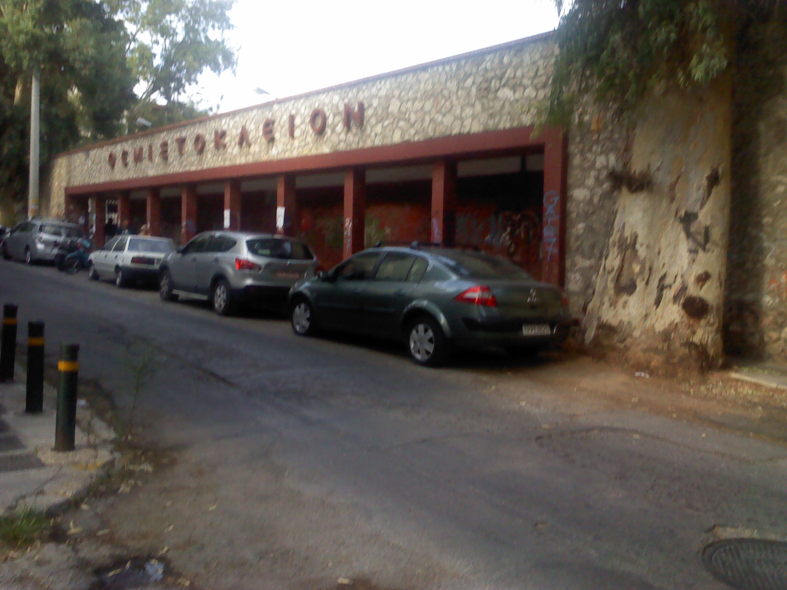 Themistokleio Tampouria